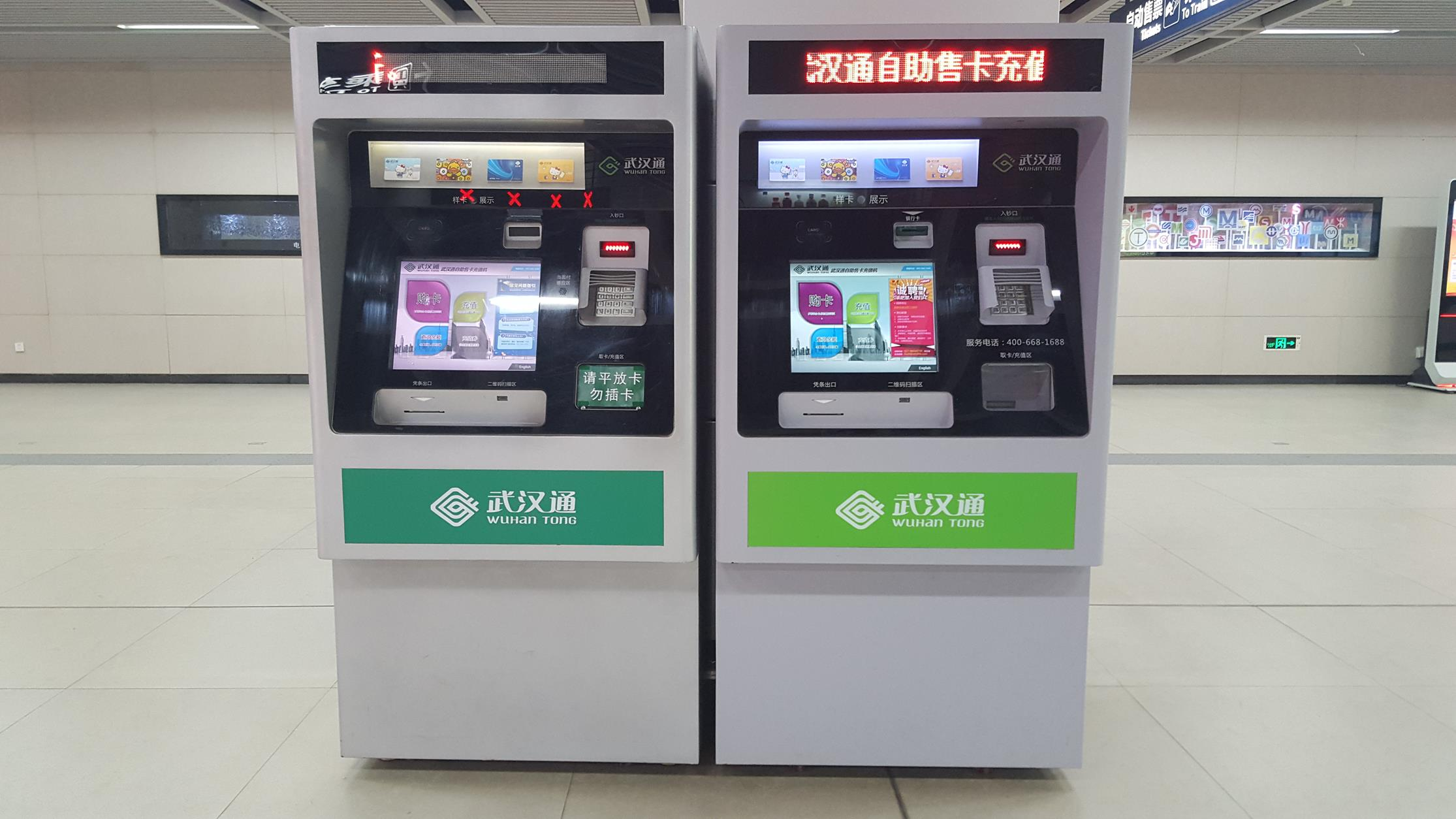 Wuhan Tong Machine